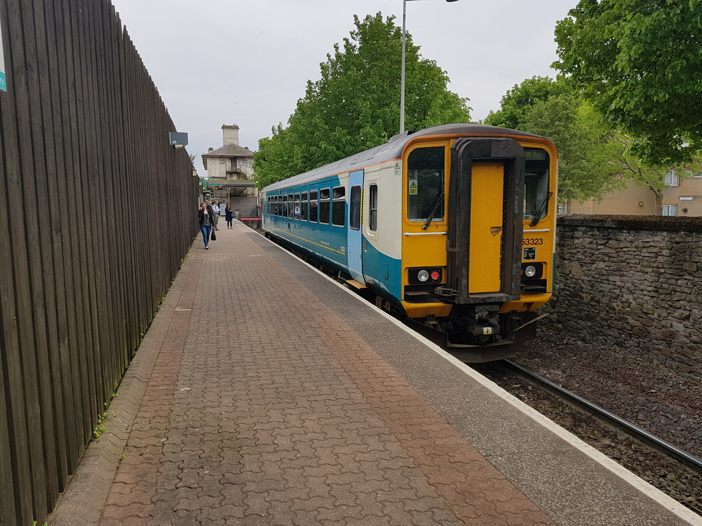 Cardiff Bay Railway Station